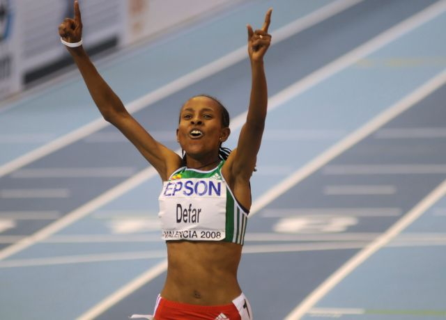 Meseret Defar during Valencia 2008 World Indoor Championships